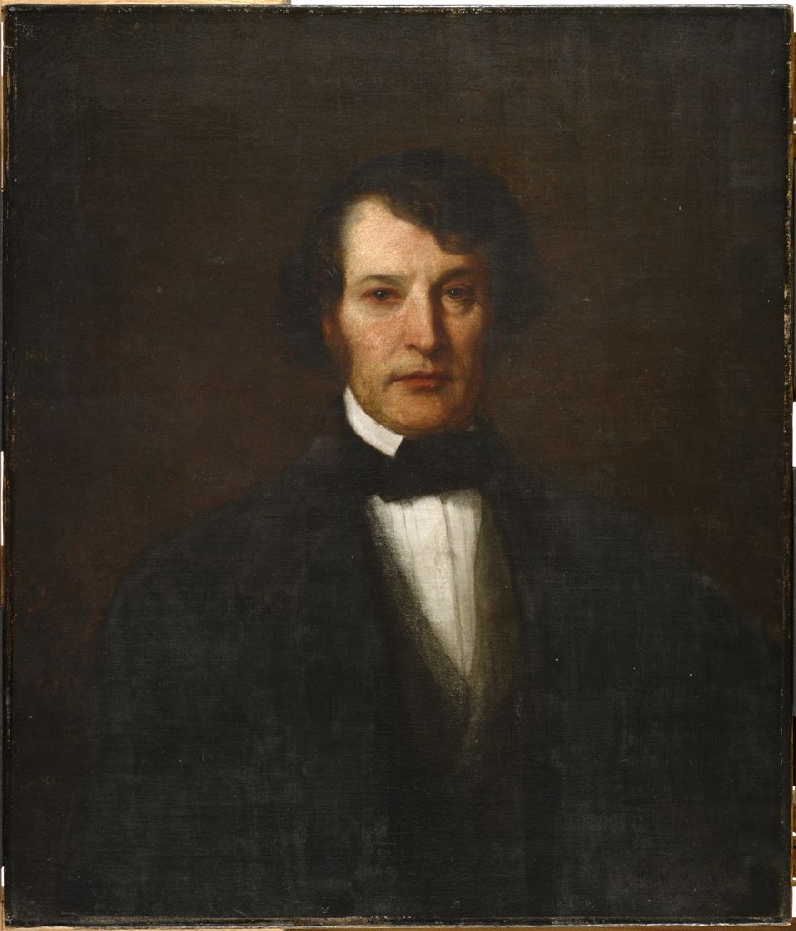 Portrait of Massachusetts politician Charles Sumner by William Henry Furness, Jr., oil on canvas. 31 5/8 in. x 27 13/16 in. Courtesy of the Harvard University Portrait Collection, Harvard University, Cambridge, Mass.